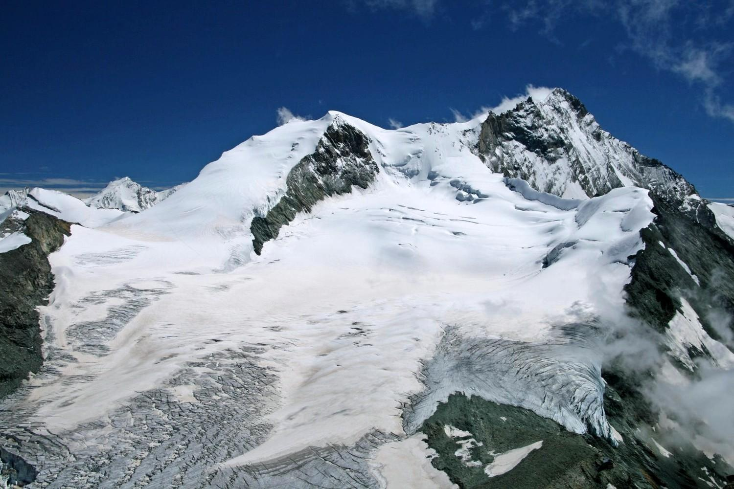 From above Tracuit